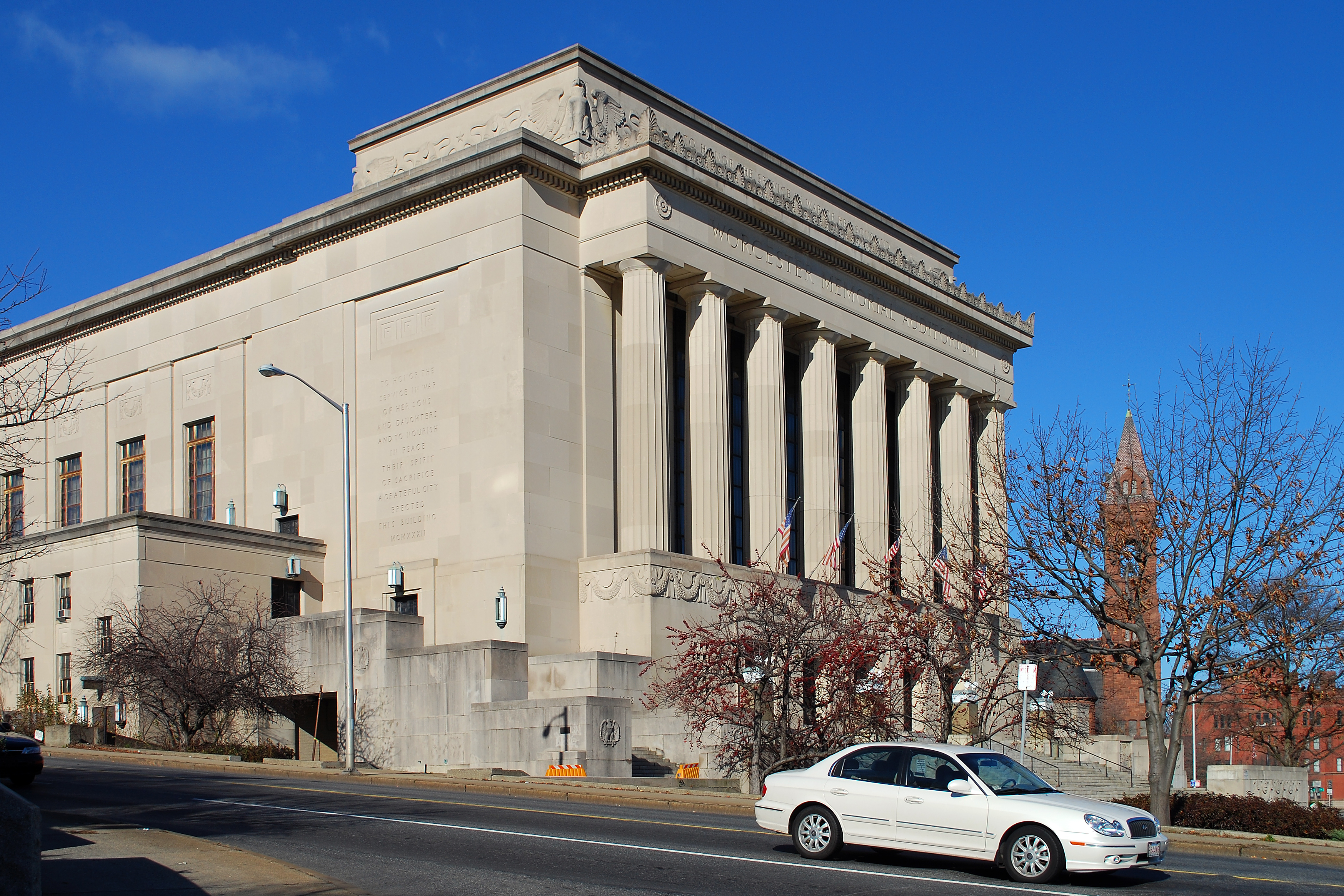 The Worcester Memorial Auditorium